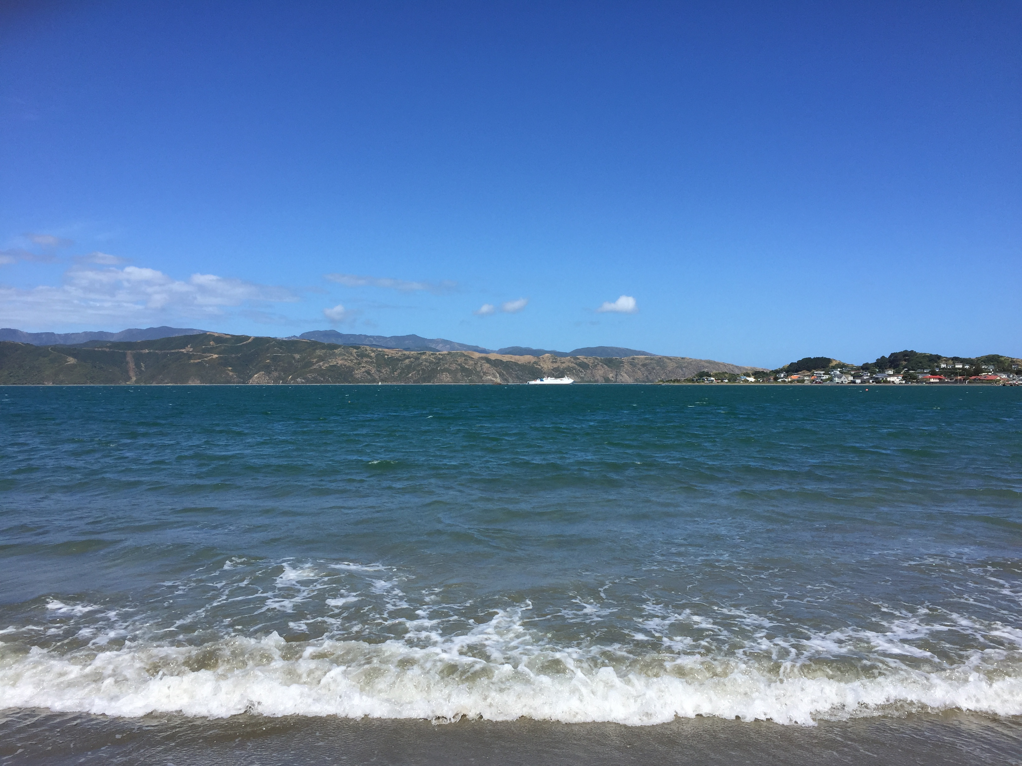 Waves at Worser Bay looking towards Remutaka Ranges.